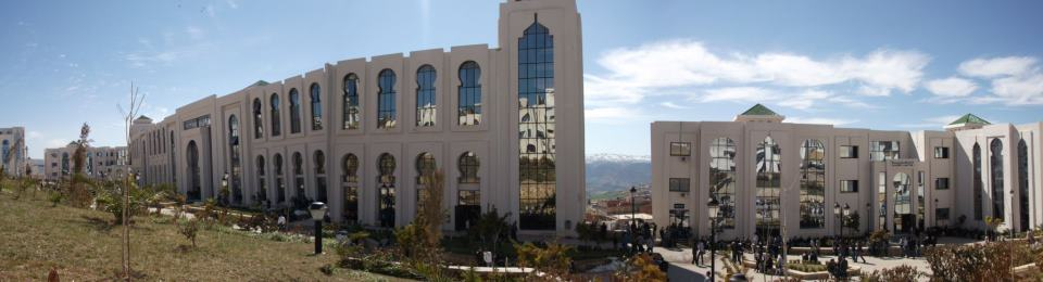 Dr. Yahia Fares University of Medea